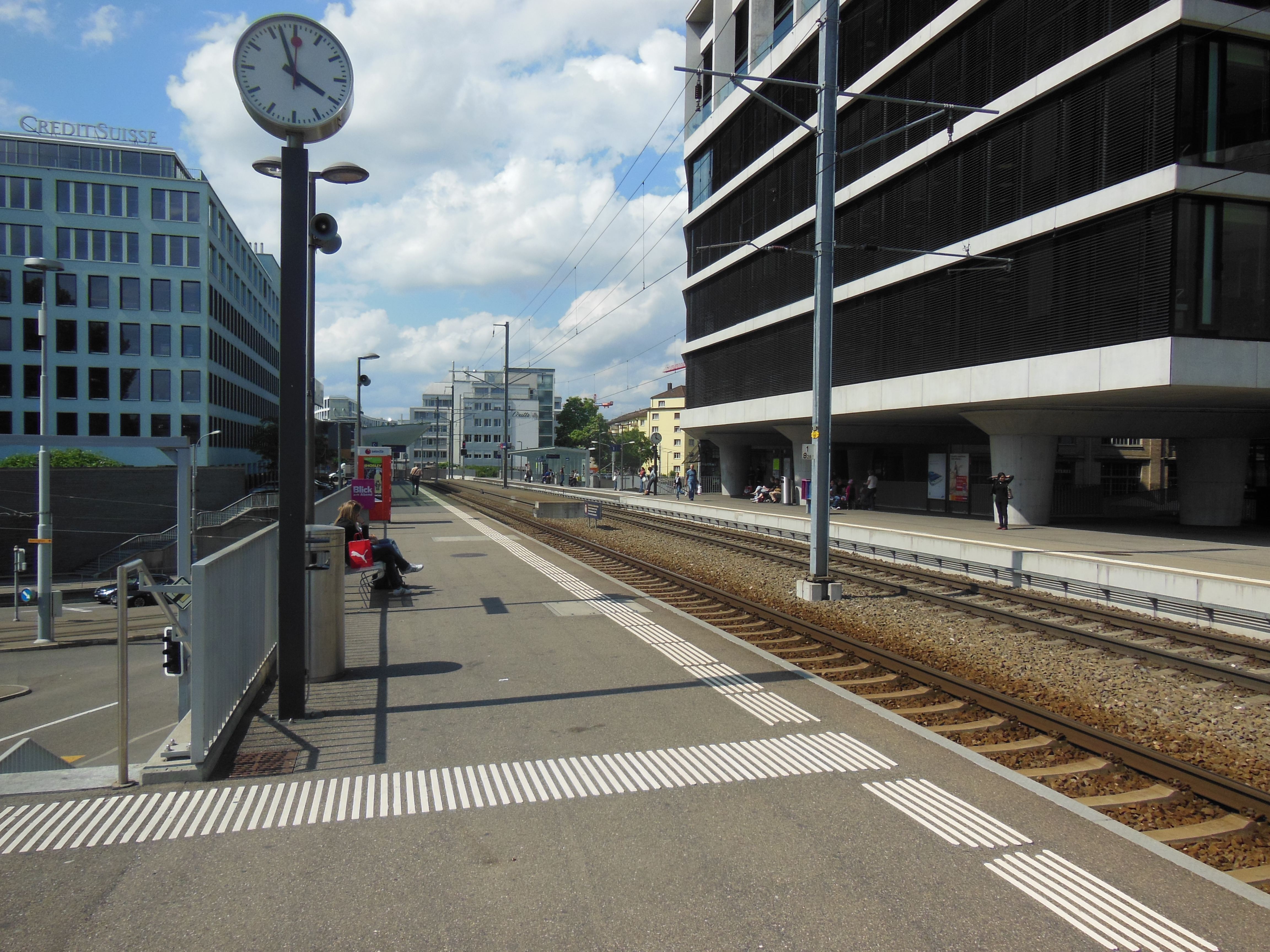 The Zurich bound platform of the Zürich Saalsporthalle-Sihlcity railway station. For more information, see Wikipedia article Zürich Saalsporthalle-Sihlcity railway station.